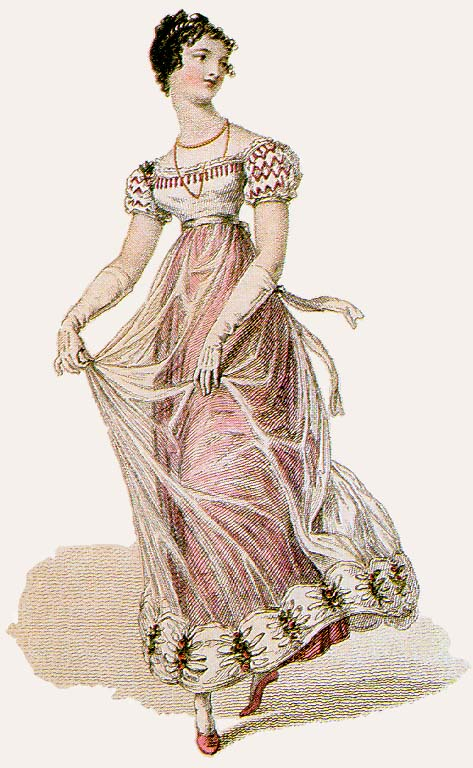 An example of transitional style between the classically-influenced "Regency" fashions of the 1810s and the more incipiently Victorian styles of the second half of the 1820s — an 1823 engraving of a ball dress (with a diaphanous overskirt that can be lifted for certain dance moves, such as the "pas d'été", see Image:Quadrille-Ete-Lebas-ca1820.jpg).